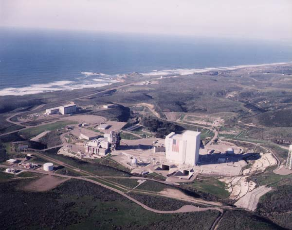 An aerial view of Space Launch Complex Six (SLC) as it looks today at Vandenberg Air Force Base in northern Santa Barbara County. The complex has been reconfigured to launch the Boeing Delta IV family of launch vehicles.